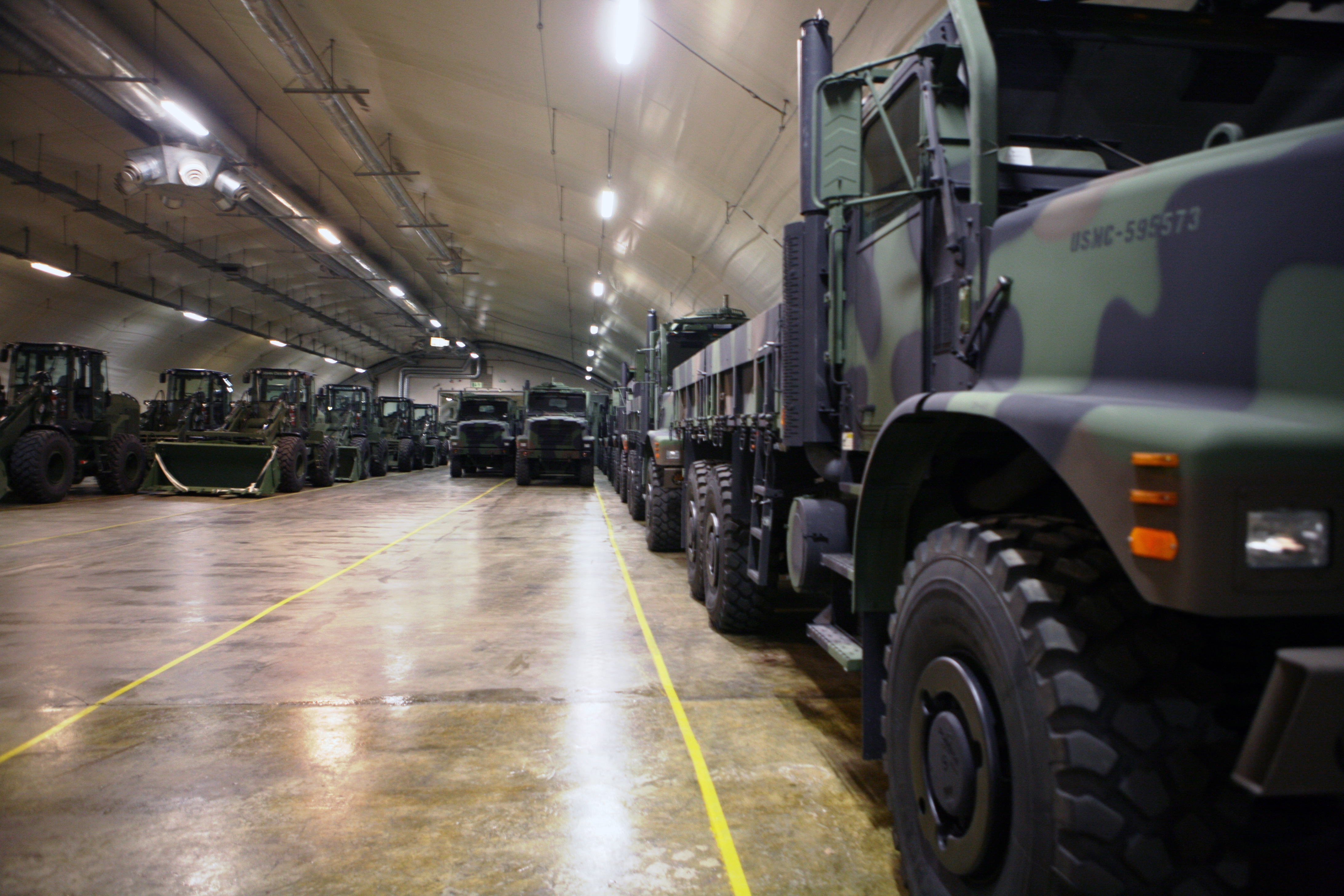 Rows of front loaders and 7-ton trucks sit, gassed up and ready to roll in one of the many corridors in the Frigard supply cave located on the Vaernes Garrison near Trondheim, Norway. This is one of seven caves that make up the Marine Corps Pre-positioning Program-Norway facility. All the caves total more than 900,000 sq. ft. of storage space, full of enough gear to outfit 13,000 Marines for up to 30 days.